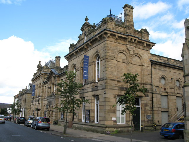 Queen's Hall Completed in 1866 as the Town Hall and Corn Exchange, by the 1920s it contained a dance hall and the Queen's Hall cinema. It was saved from demolition in 1975 and re-opened as the Queen's Hall Arts centre with a library, art rooms, theatre and gallery. [Source: Hexham Walks - a guide to Essential Hexham (Hexham Local History Society)]